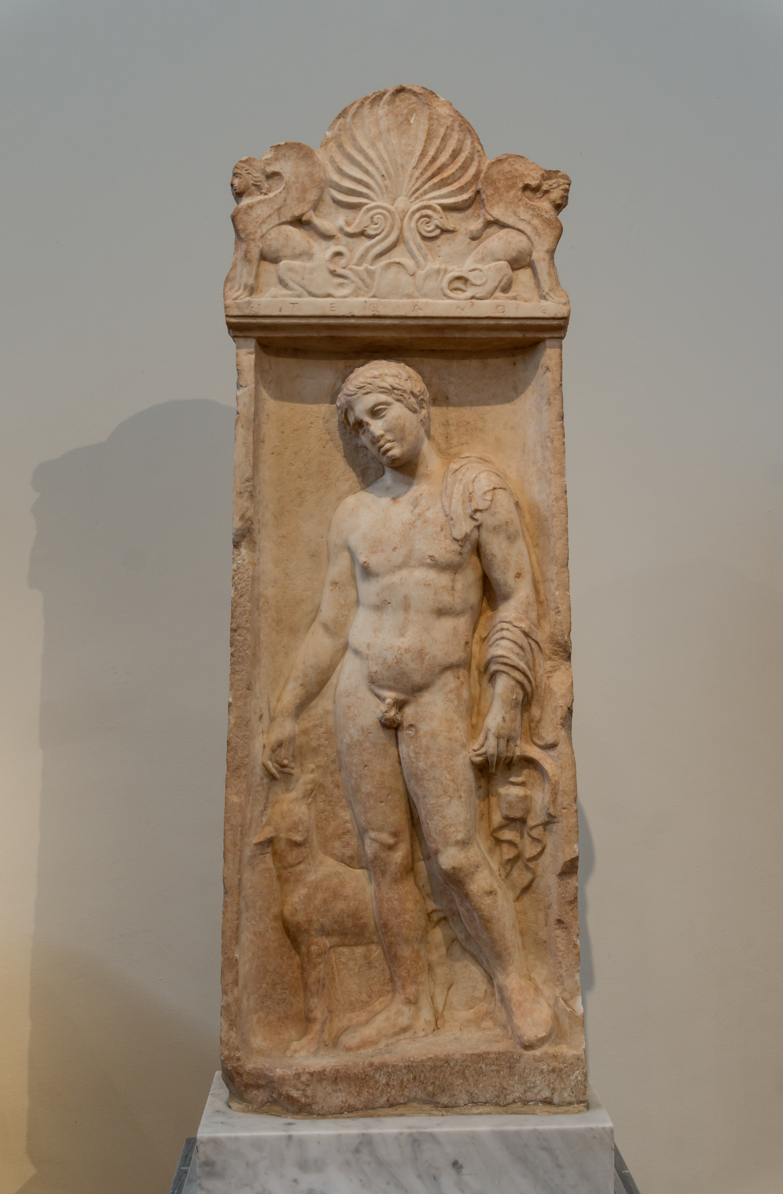 Grave stele. Pentelic marble. From Tanagra. Shows Stephanos with his dog, with a Chlamys over his shoulder, an aryballos and a strigil in his right hand. NAMA2578. First quarter of the 4th-century BCE. Athens, Greece.